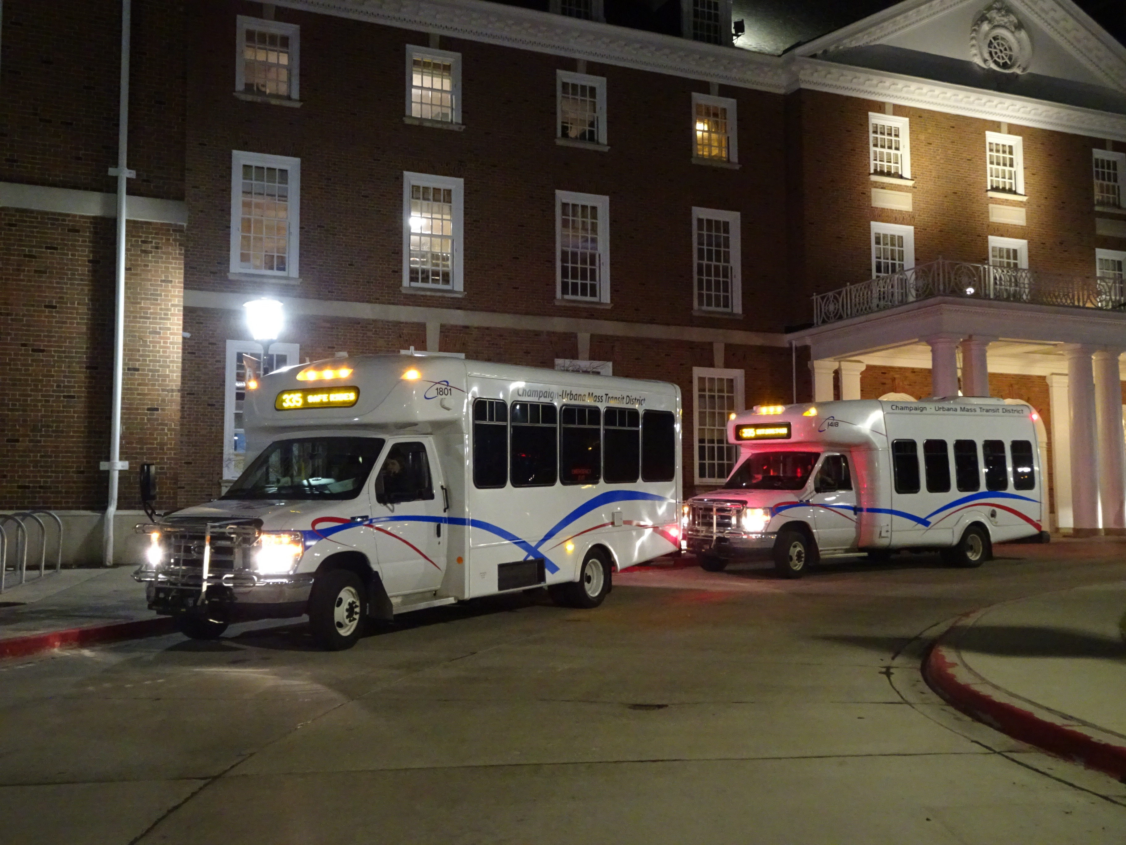 Champaign-Urbana Mass Transit District Ford E-450 cutaway vans #1801 and #1418 operating on SafeRides, an overnight demand-responsive minibus service for students and faculty at the University of Illinois at Urbana-Champaign